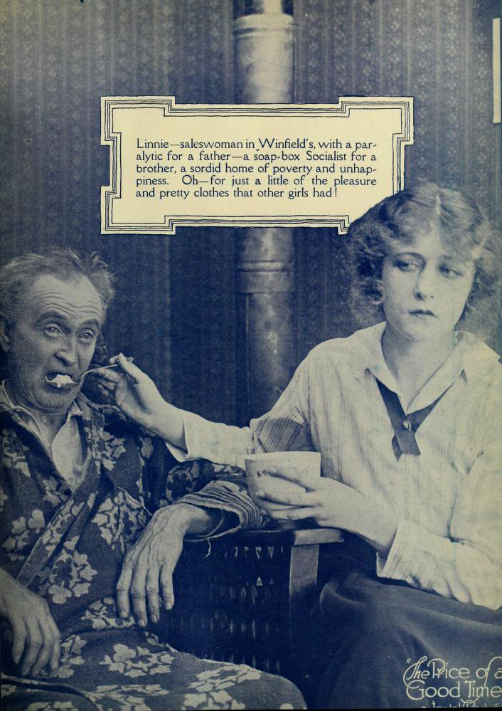 Advertisement in Moving Picture World, December 1917 for the film The Price of a Good Time (1917).